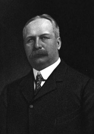 Portrait of Virginia Governor Henry Carter Stuart